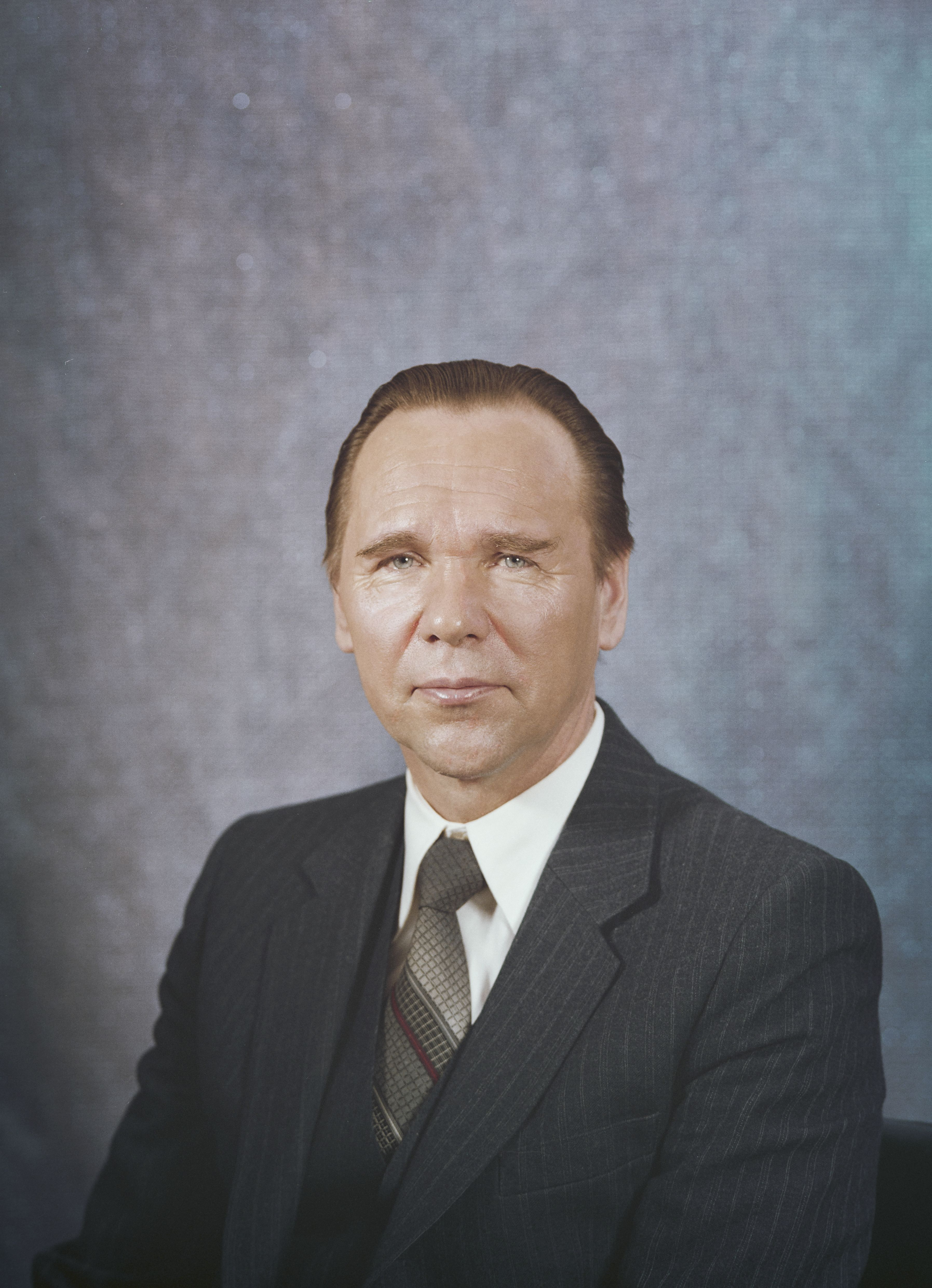 Photograph of the Finnish politician Markus Kainulainen (1922–2017).